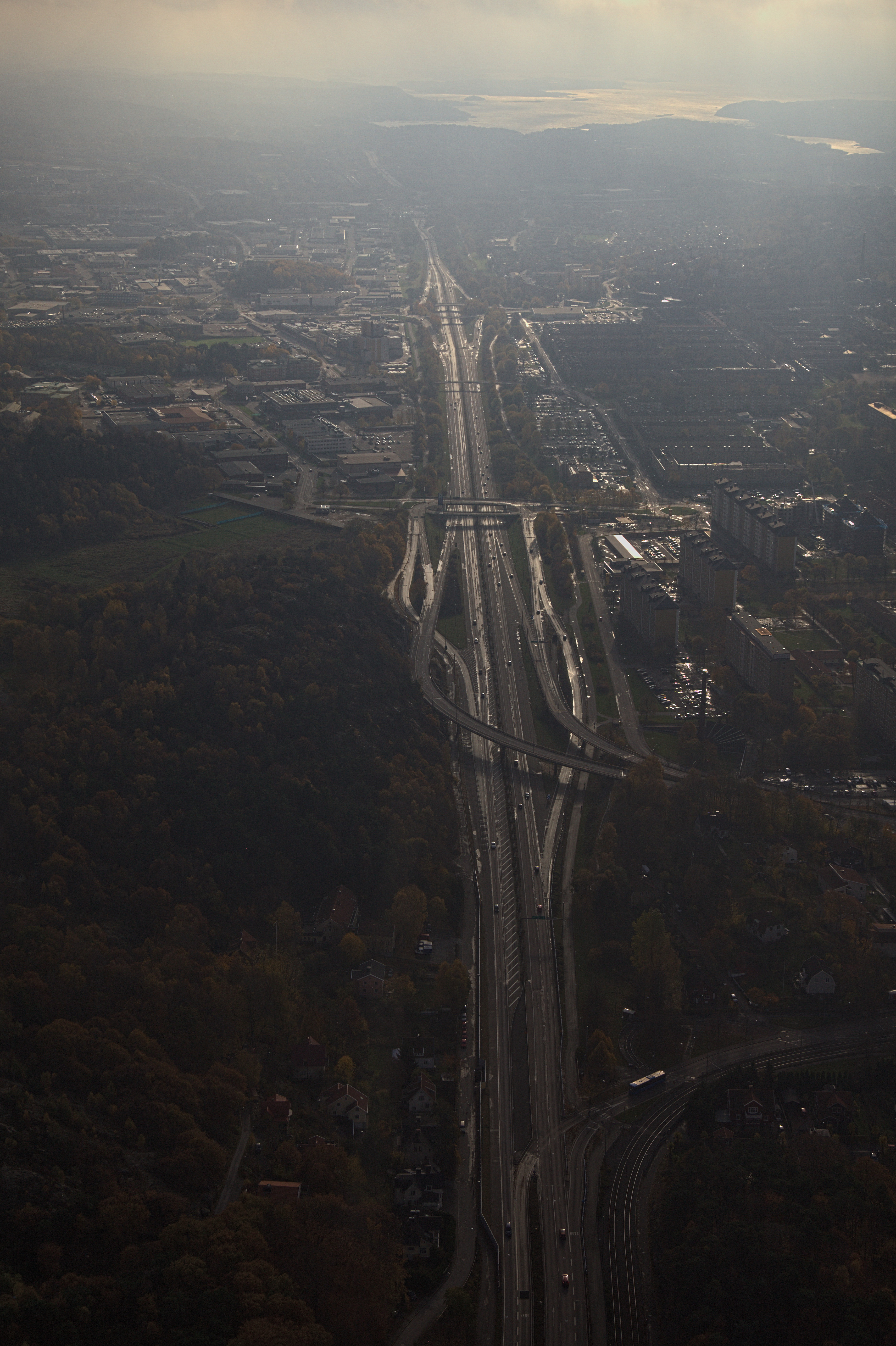 Photo taken on a helicopter over Gothenburg